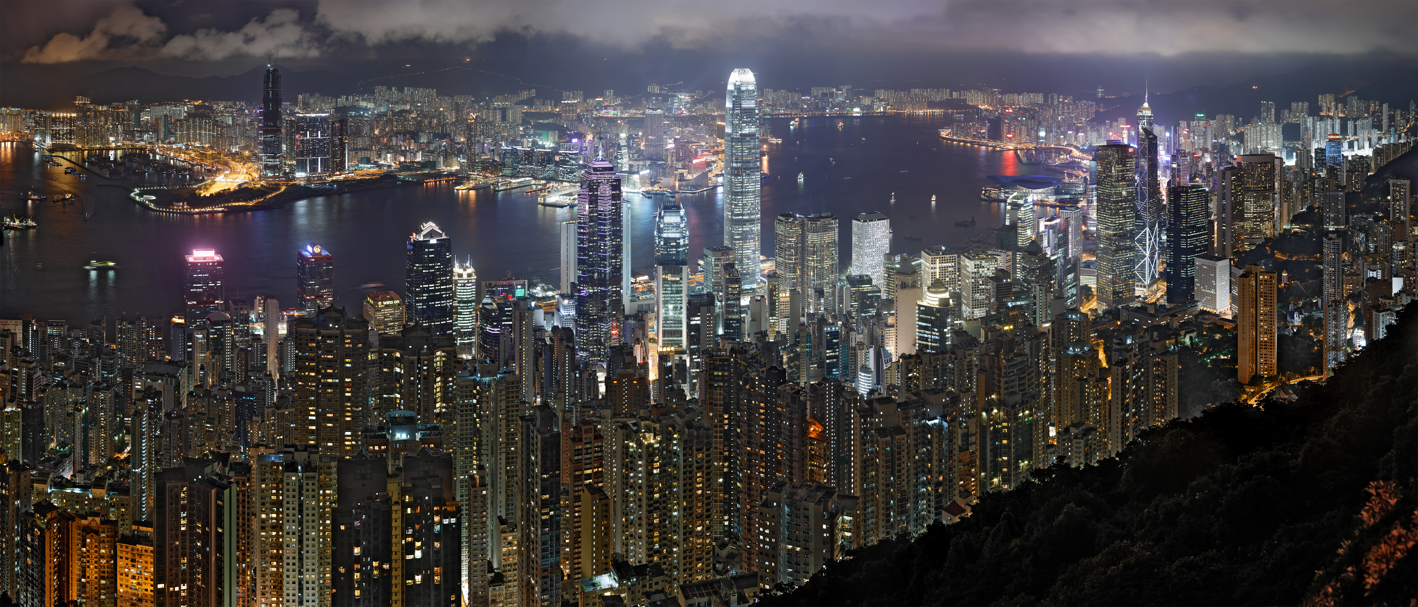 A 46 segment non-HDR panorama of the Hong Kong night skyline. Taken from Lugard Road at Victoria Peak.